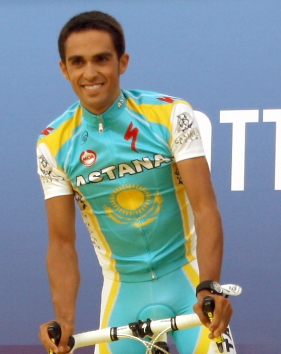 Alberto Contador at the team presentation of the 2010 Tour de France in Rotterdam